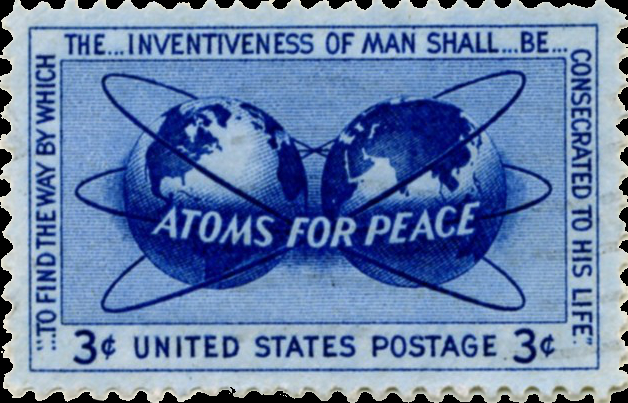 Atoms for Peace U.S. postage stamp, from 1955.